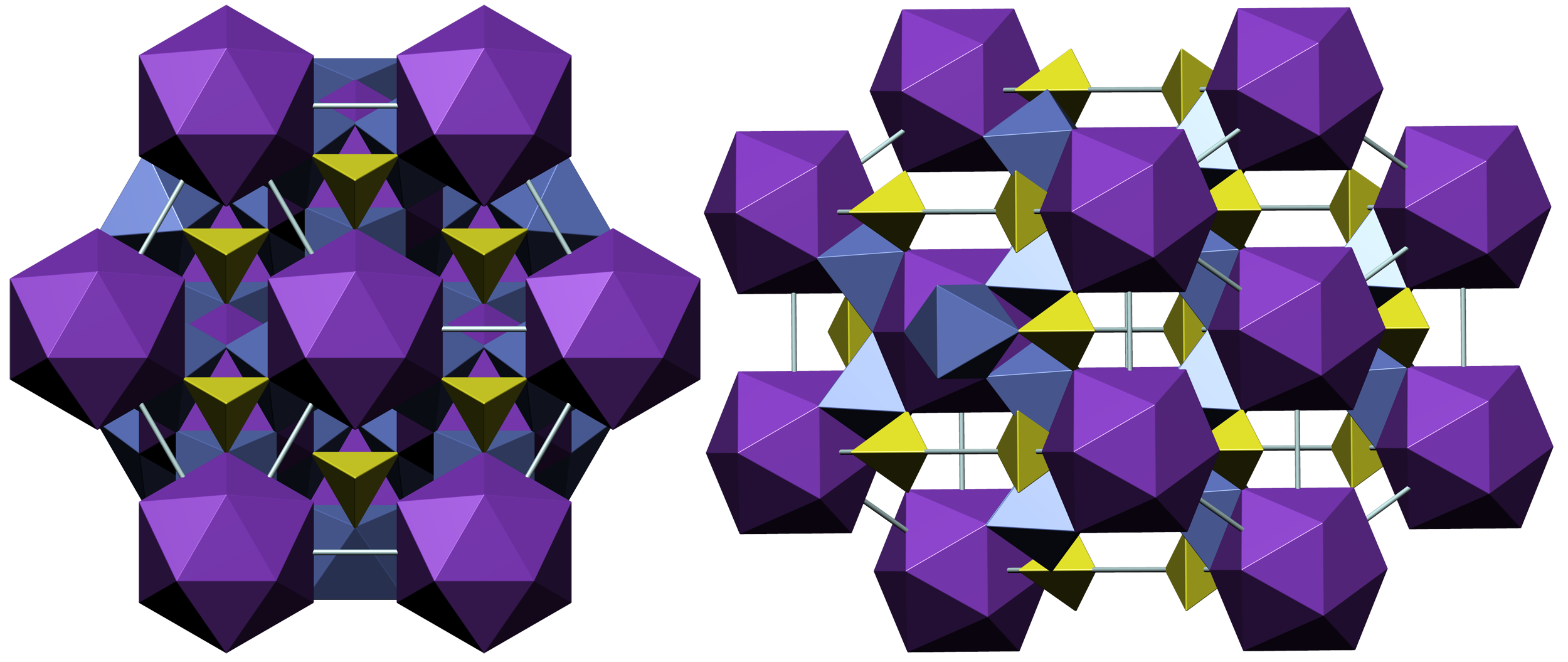 Crystal structure of jarosite - KFe3+3(OH)6(SO4)2. Mills S J, Nestola F, Kahlenberg V, Christy A G, Hejny C, Redhammer G J Colour code: Potassium, K: indigo Sulfur, S: olive Iron, Fe: blue Cell: sky-blue